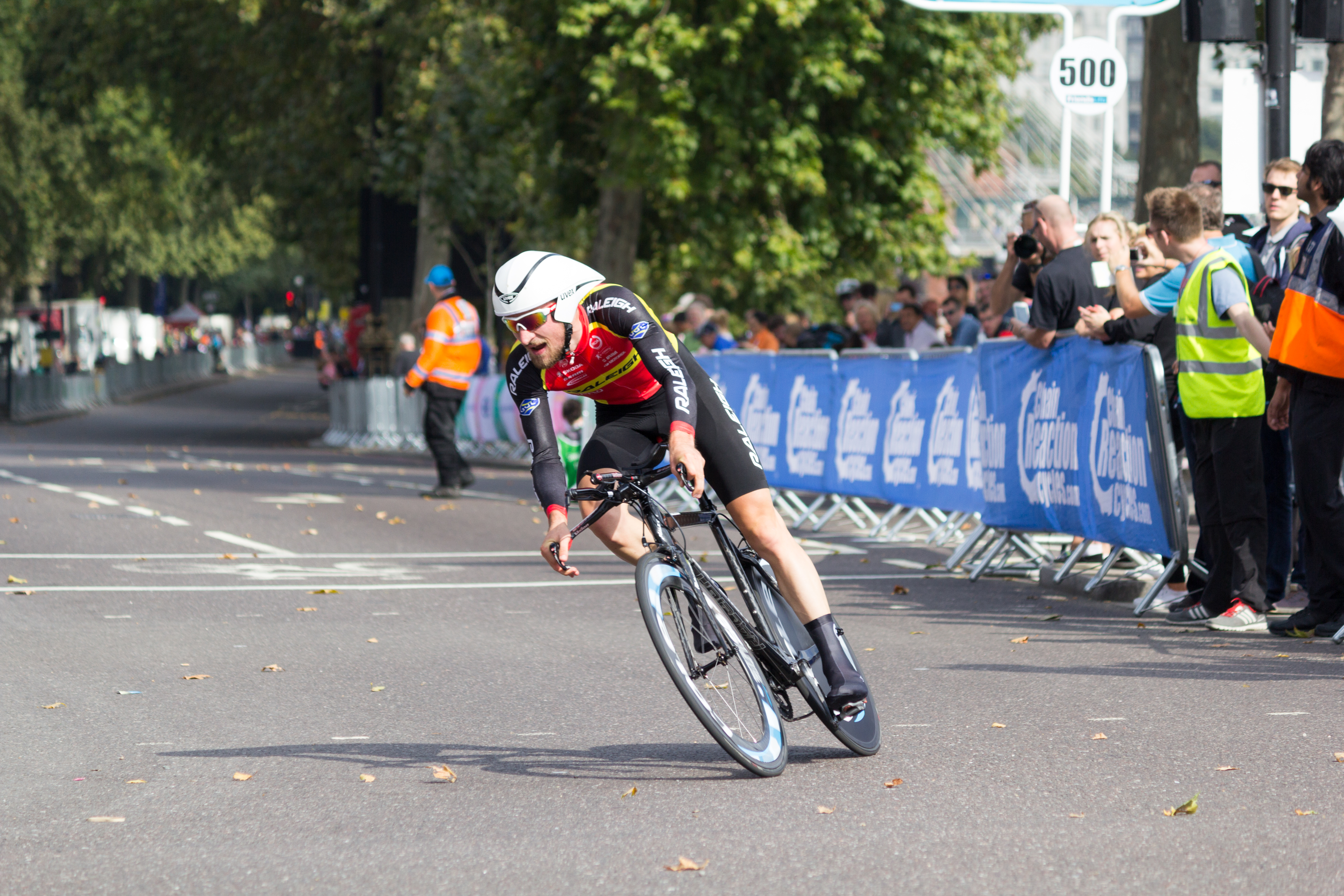 Tour of Britain 2014 stage 8a - London time trial